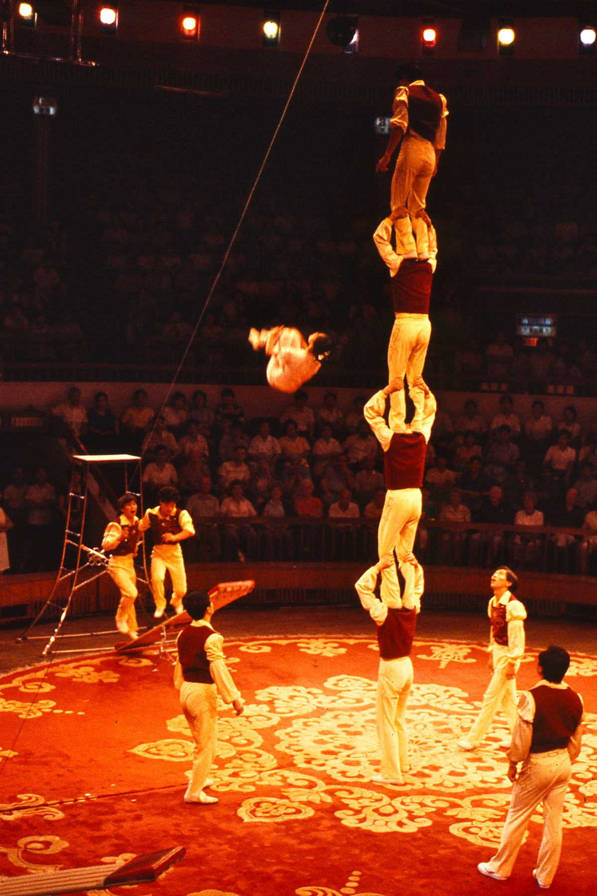 An acrobat is in midair after being launched from a springboard in this performance in China in 1987. Other information Photo by George Garrigues